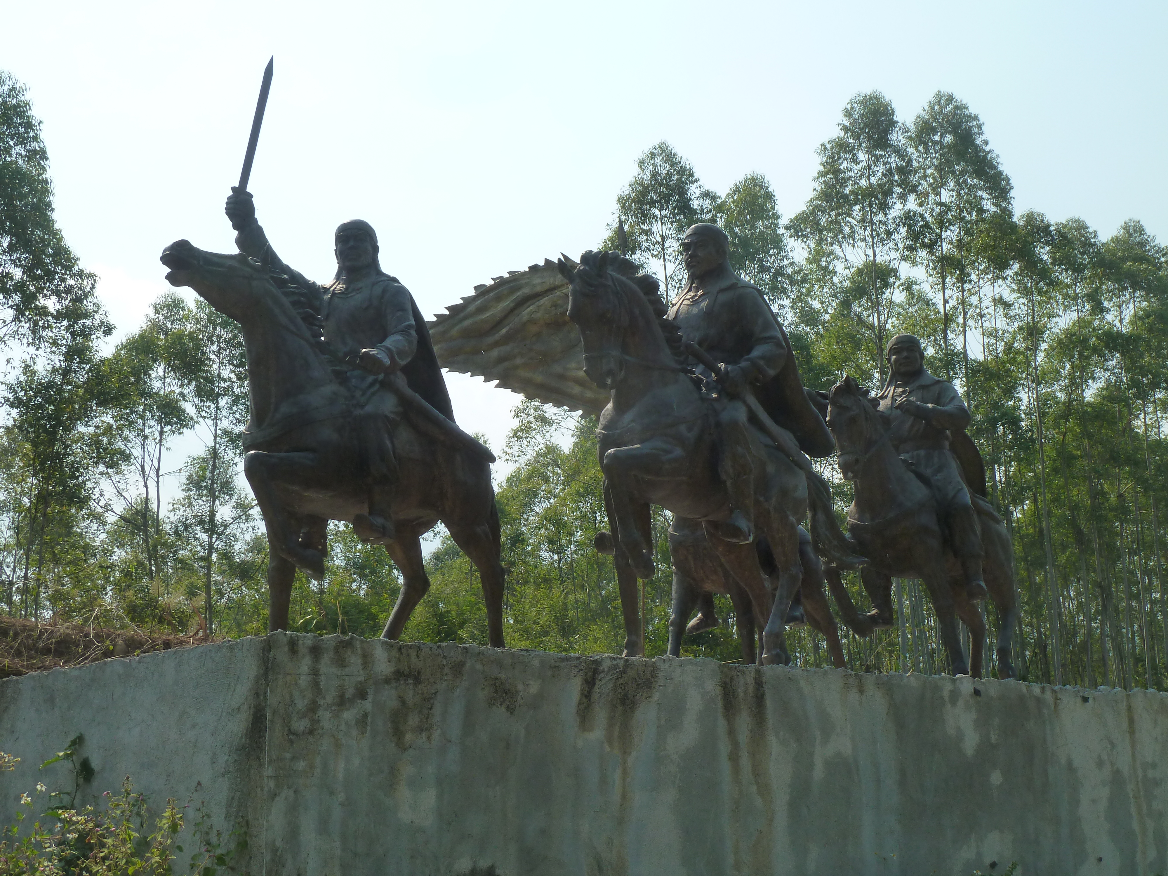 The Jintian Uprising Site in the village of Jintian in Jintian Town, Guiping is where Hong Xiuquan and his followers officially launched the Jintian Uprising.